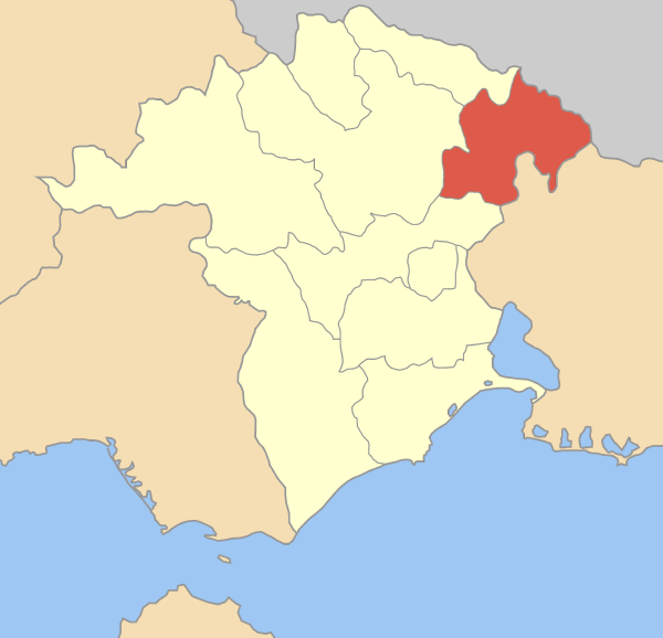 Locator map of Satres community (Κοινότητα Σατρών) in Xanthi prefecture (Νομός Ξάνθης) in Greece.